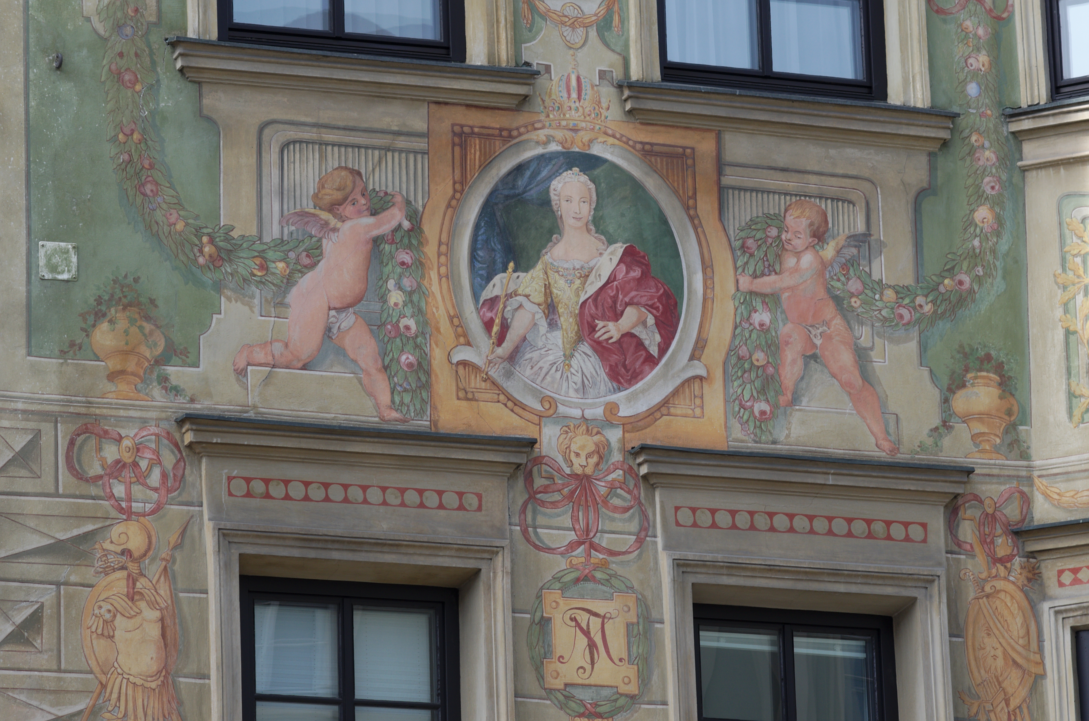 Innsbruck - 01042014 - Painted house